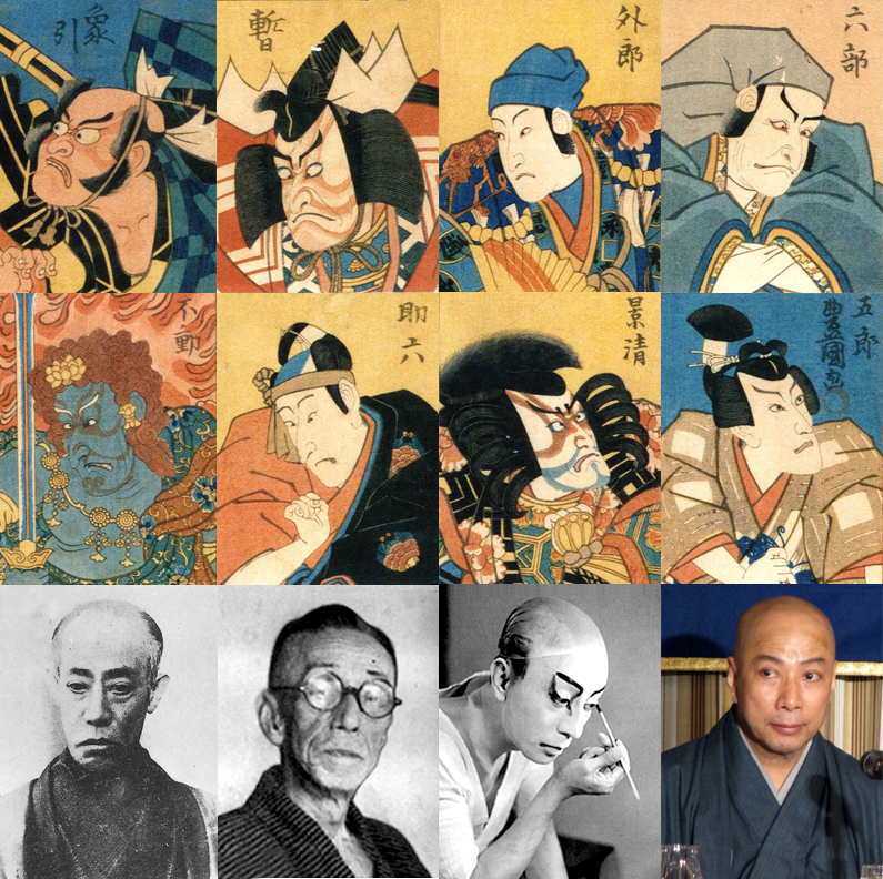 Danjūrō Ichikawa I–XII Danjūrō Ichikawa I as Yamagami Gennaizaemon in Zōhiki Danjūrō Ichikawa II as Kamakura Gongorō Shibaraku Danjūrō Ichikawa III as Soga no Gorō disguised as Uirō-uri in Uirō Danjūrō Ichikawa IV as Shōgun-Tarō Yoshikado disguised as Rokujū-roku-bu Kaizan in Kamahige Danjūrō Ichikawa V as Fudō-myō-ō in Fudō Danjūrō Ichikawa VI as Hanatogawa Sukeroku in Sukeroku Danjūrō Ichikawa VII as Taira no Kagekiyo in Kagekiyo Danjūrō Ichikawa VIII as Soga no Gorō in Ya no Ne Danjūrō Ichikawa IX (Danjūrō X) Sanshō Ichikawa V Danjūrō Ichikawa XI Danjūrō Ichikawa XII